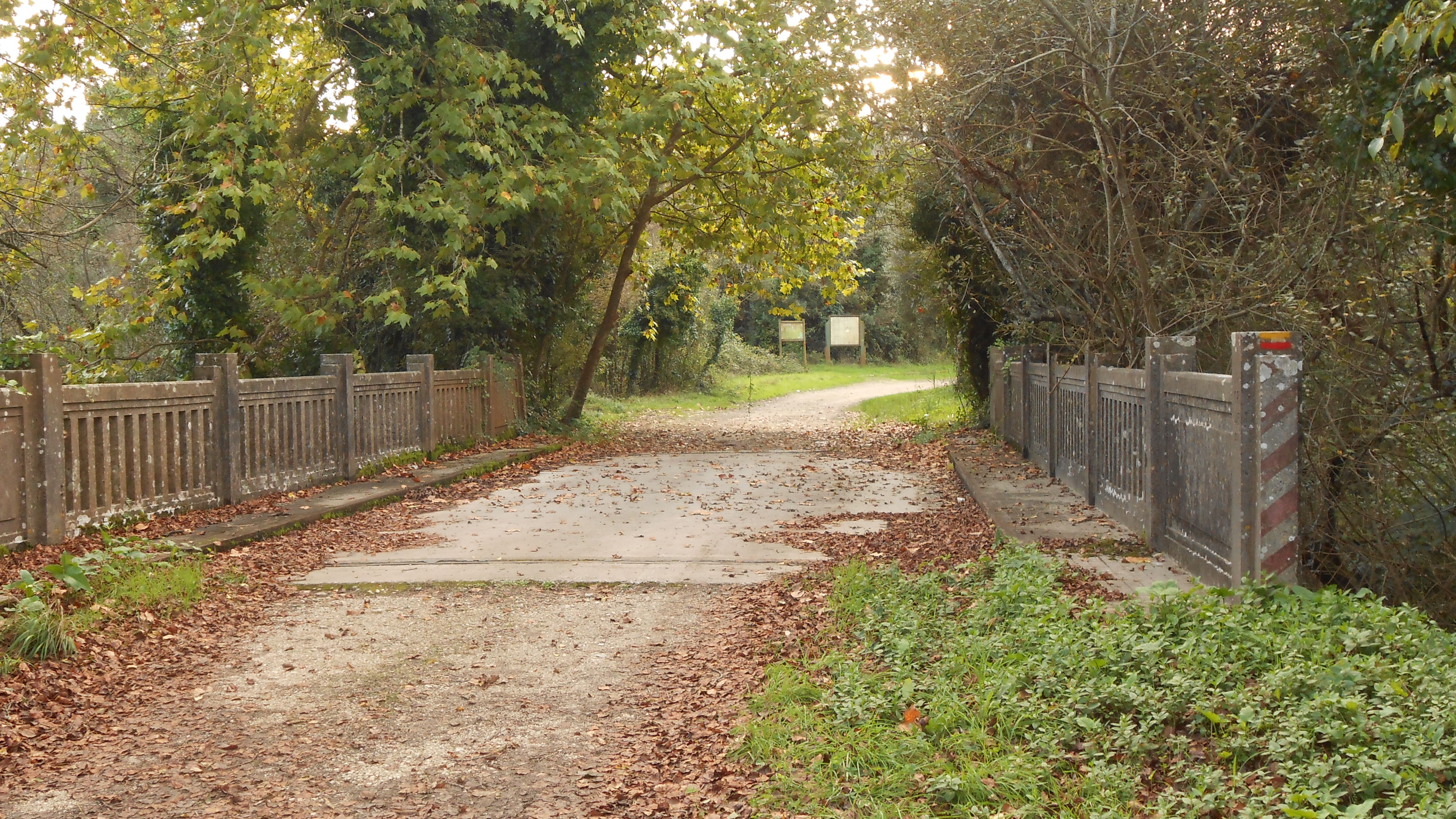 Street entrance from the east to the ruins of the iron age village in the archaelogical site of Santa Olaia in the Figueira da Foz municipality, Portugal.